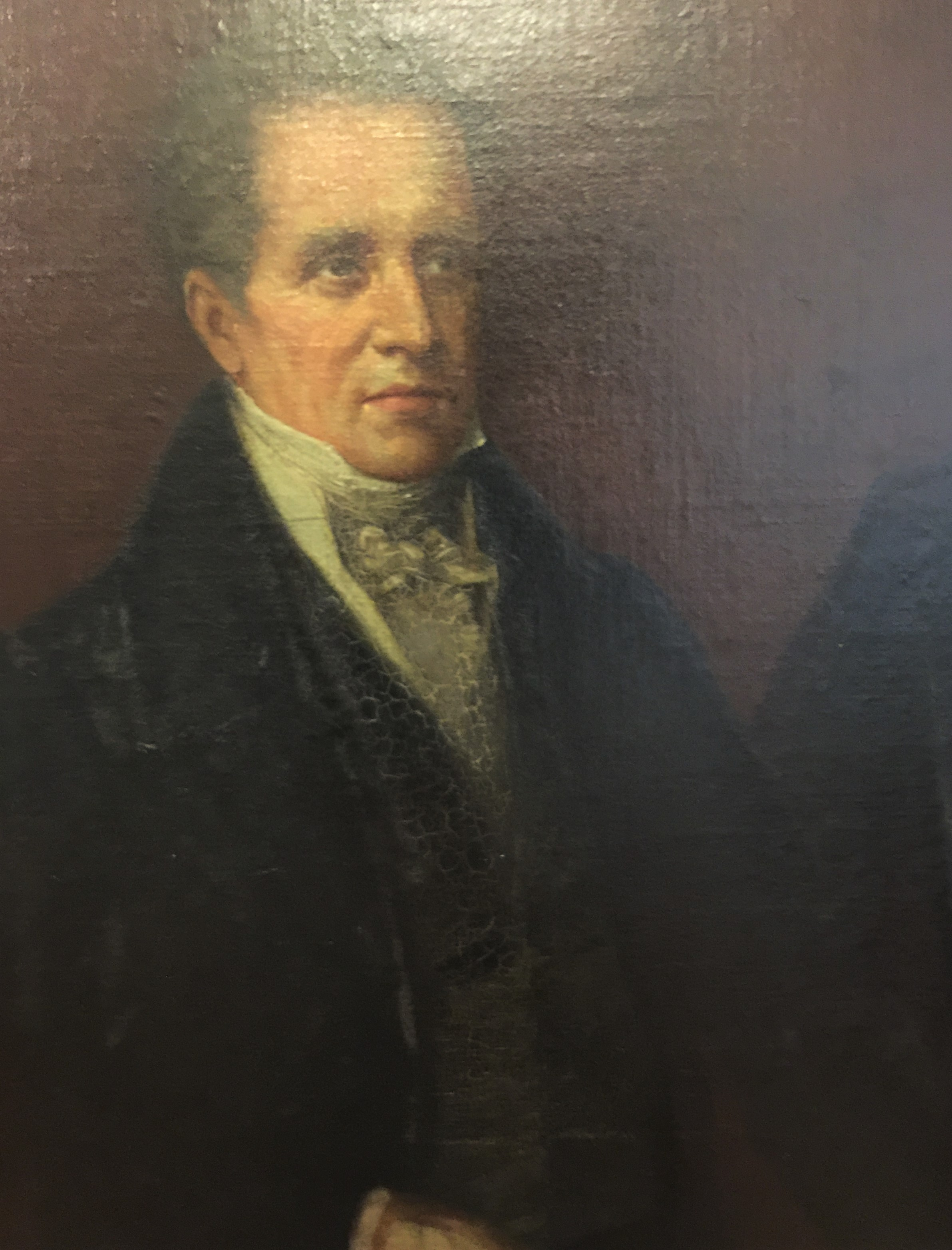 Agustín Manuel de Eyzaguirre y Arechavala (May 3, 1768 – July 19, 1837) was a Chilean political figure. He served as Provisional President of Chile between 1826 and 1827. He was born in Santiago, Chile, the son of the Basque Domingo Eyzaguirre Escutasolo and of María Rosa de Aretxabala y Alday. He studied law and theology at the Real Universidad de San Felipe, graduating in 1789. Originally he wanted to become a priest, but later changed his mind, and decided to take over the family hacienda in Calera de Tango. He married María Teresa de Larraín y Guzmán Peralta on September 13, 1808. During all the rest of his life he dedicated himself to the commerce and the management of his lands.